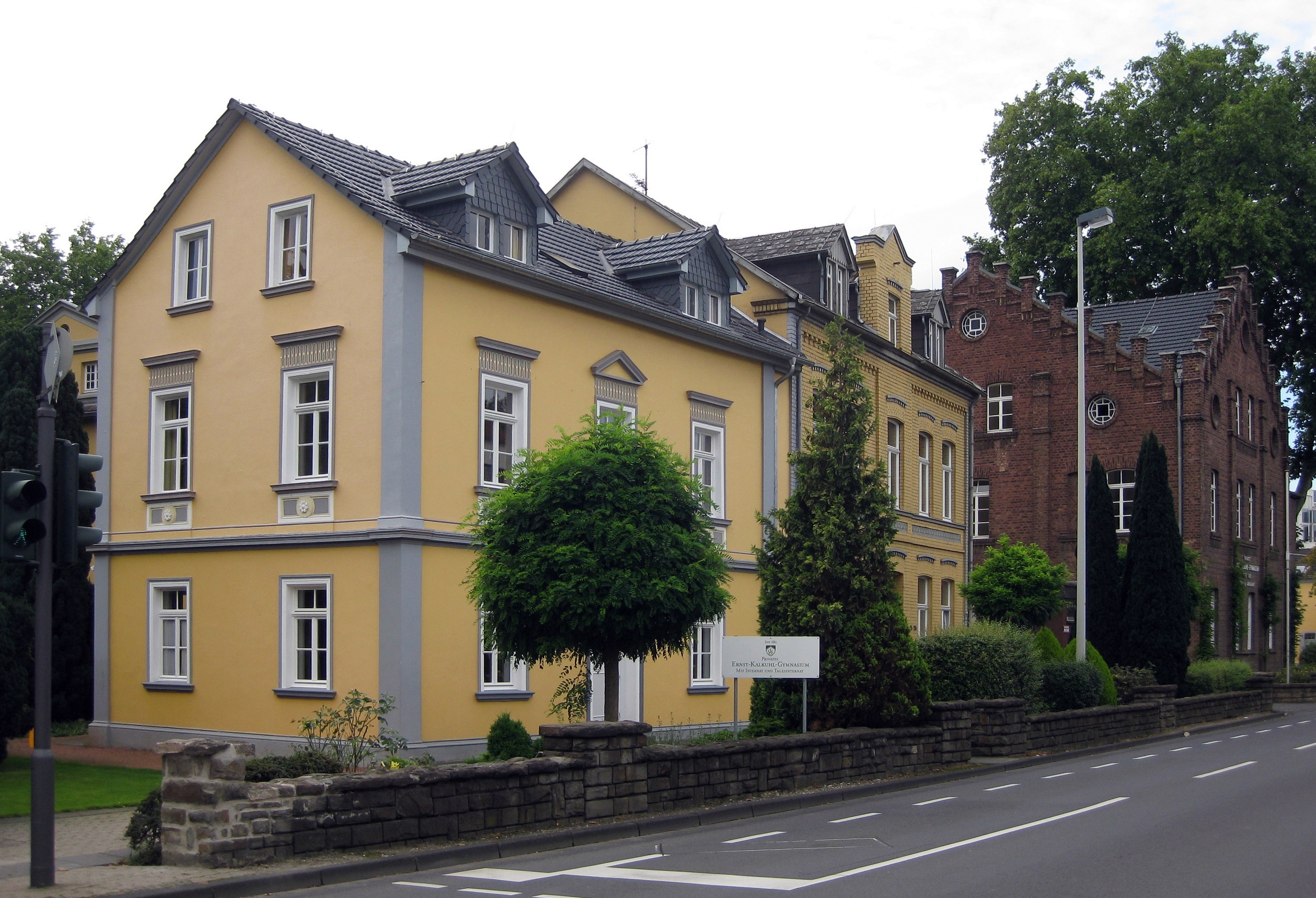 Germany, Bonn-Oberkassel: Buildings of Ernst-Kalkuhl-Gymnasium, a private school.